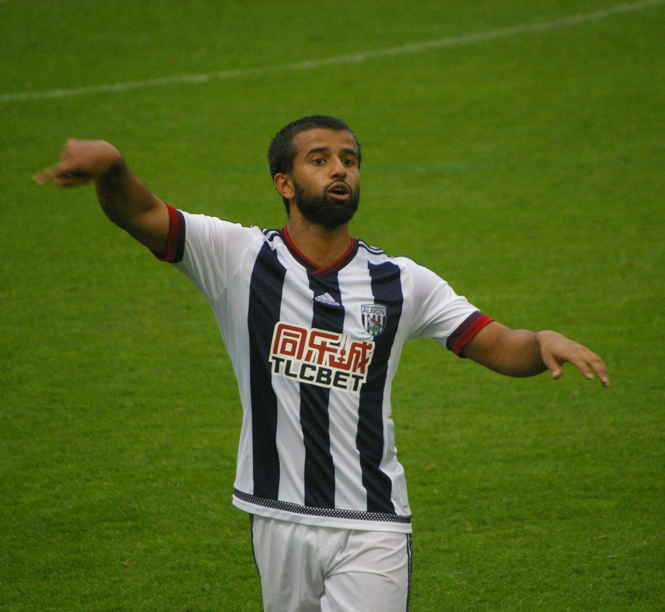 friendly match preseason 2015/16. Adil Nabi